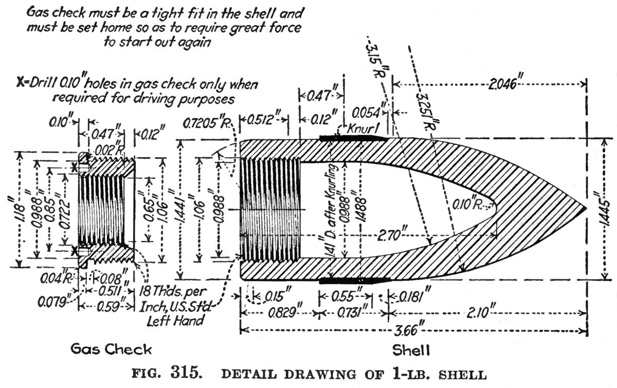 Diagram of 1-pound explosive shell for Russian 37-mm gun, as manufactured in USA.